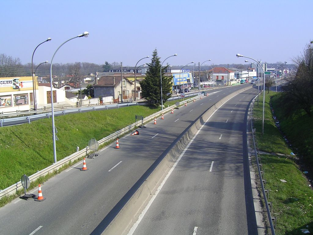 Livry-Gargan : la route nationale 3 et la zone industrielle Photo personnelle (own work) de Marianna